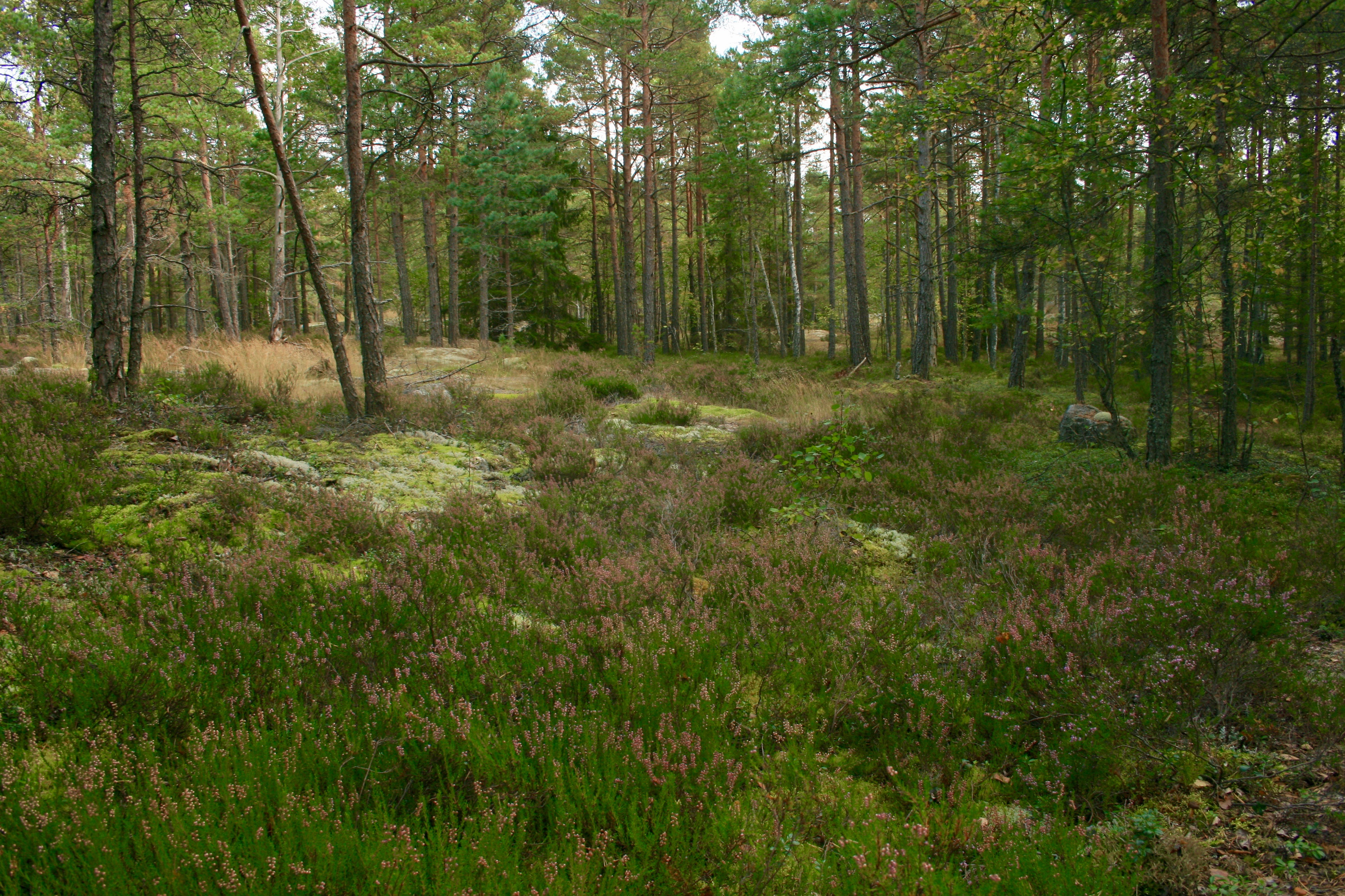 Ground vegetation in Tyresta national park forest